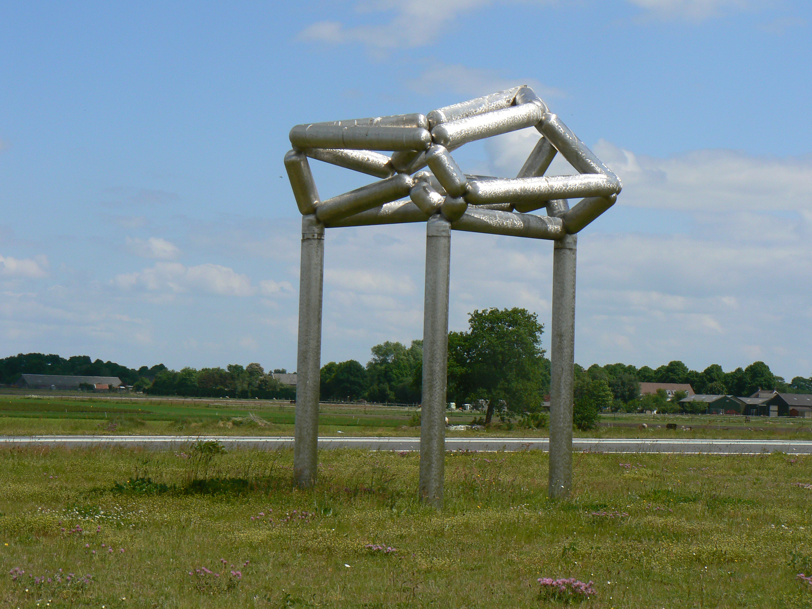 sculpture (2 of 2) The Same But Different (2006) by Richard Deacon in Hoogersmilde, Drenthe/The Netherlands